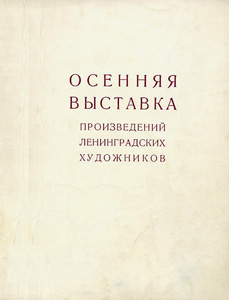 Cover of the catalog of Autumn Exhibition of works by Leningrad artists of 1958